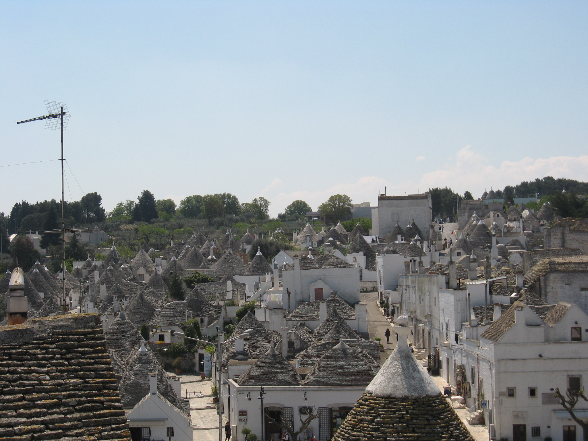 Rione Monti